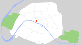 Paris map with marked Louvre